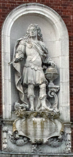 Statue of Prince George of Denmark on the east front of Windsor Guildhall, Berkshire, England